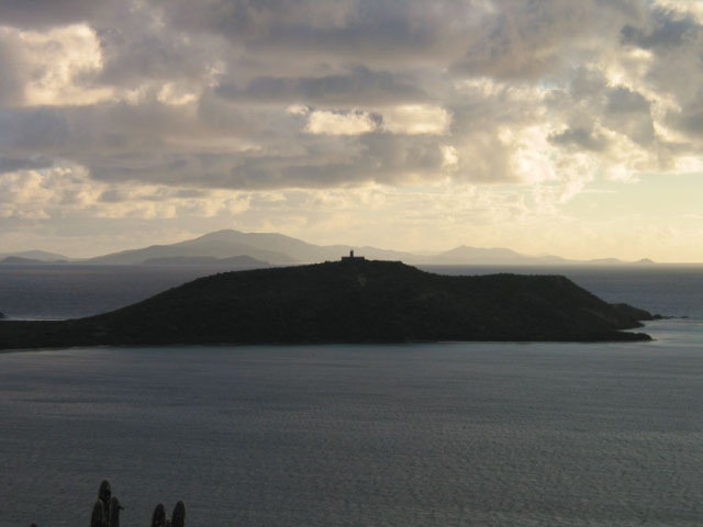 Culebrita lighthouse on top, St. Thomas (US Virgin Islands) on the horizon